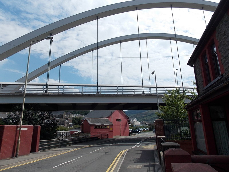 B4278 passes under the Rheola Bridge, Porth. Viewed from Aberrhondda Road looking under Rheola Bridge towards The Rheola pub. Dwarfed by the Rheola Bridge, there is another bridge in view - the one carrying the B4278 over a river, the Rhondda Fach. The horizontal metal bars at the edge of the river bridge are between the urinal on the left and the pub.